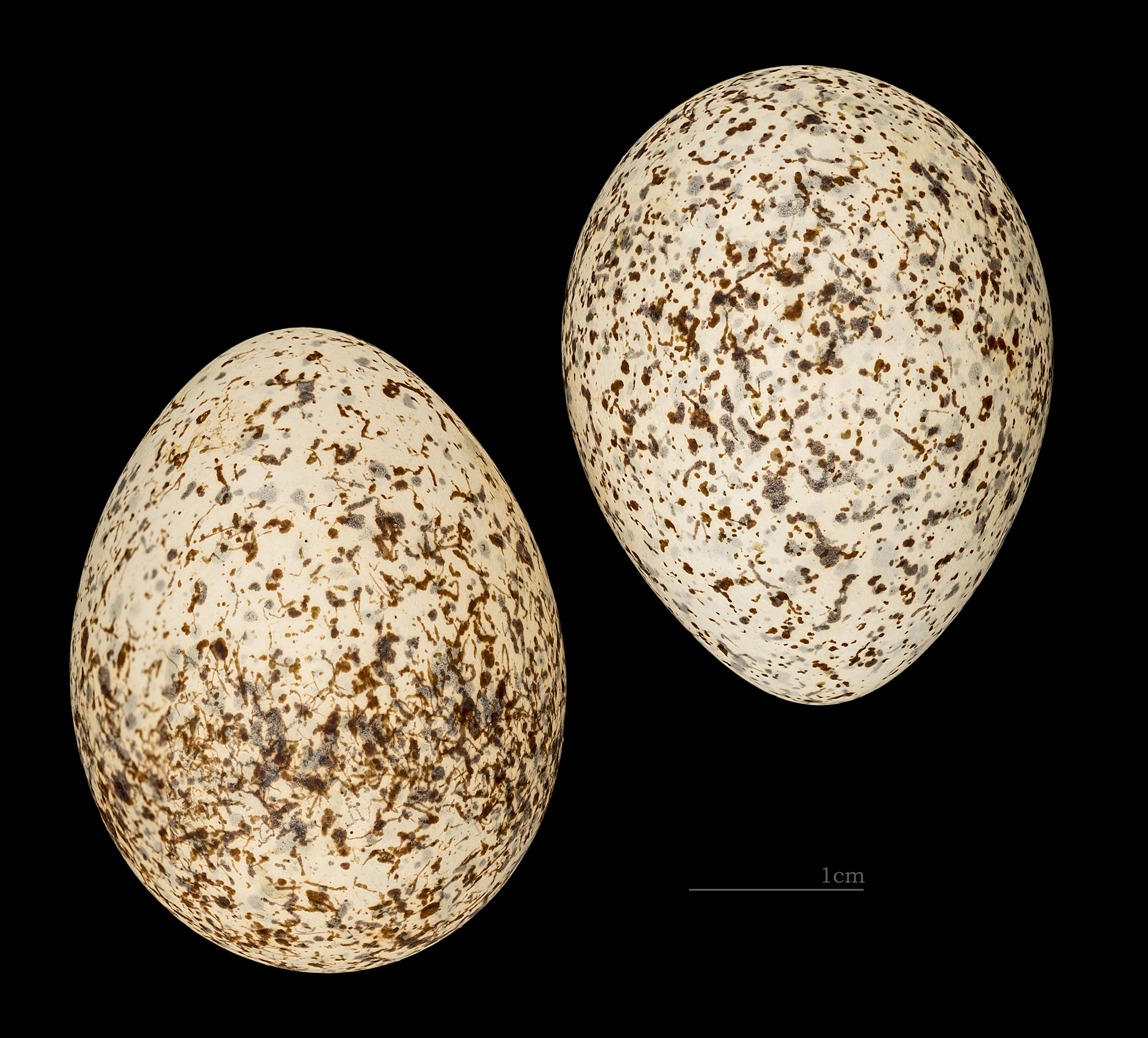 Egg of Cream-colored Courser Collection of Jacques Perrin de Brichambaut.